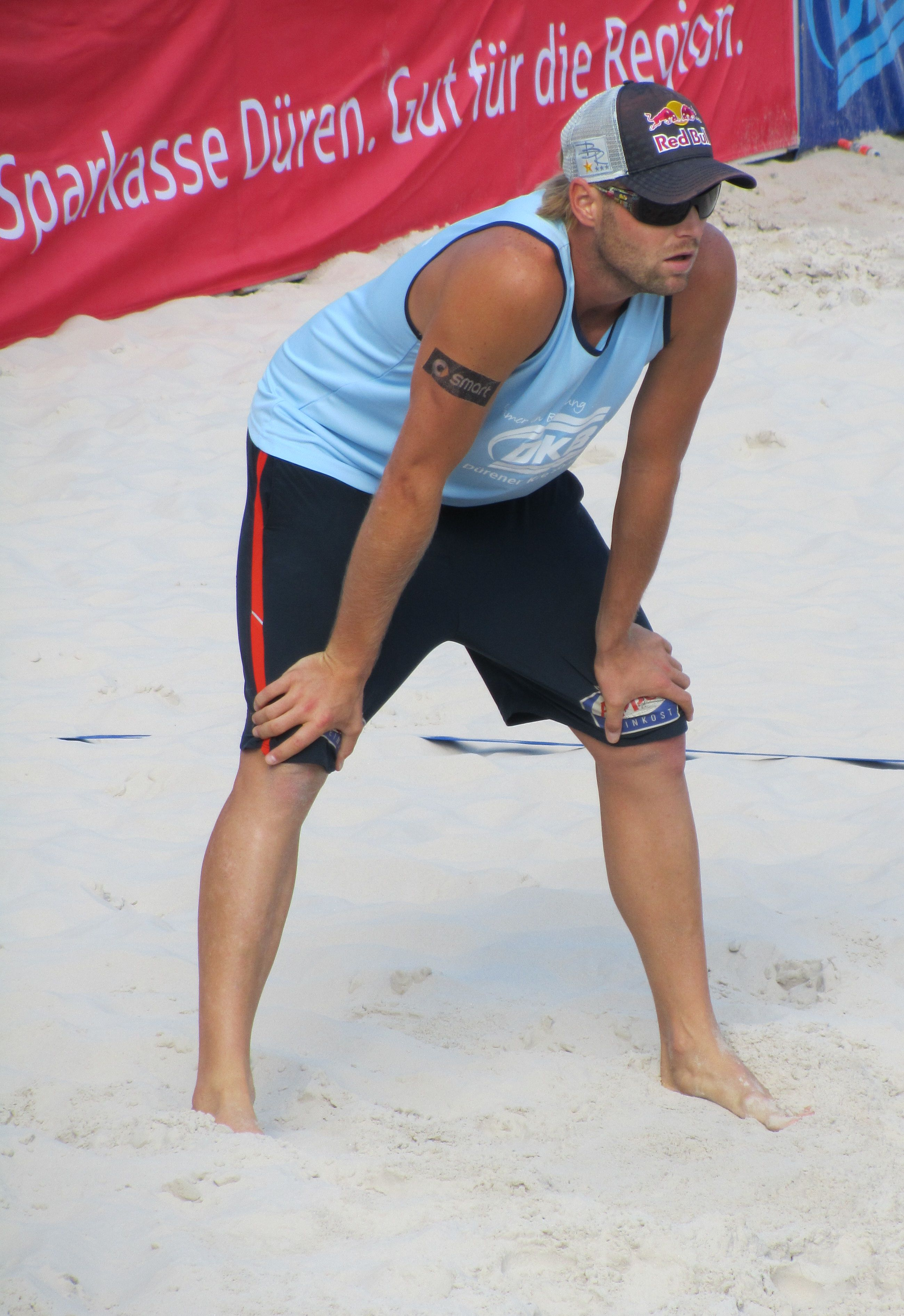 the German beach volleyball player Julius Brink at the DKB Beach Cup 2011 in Düren, Germany